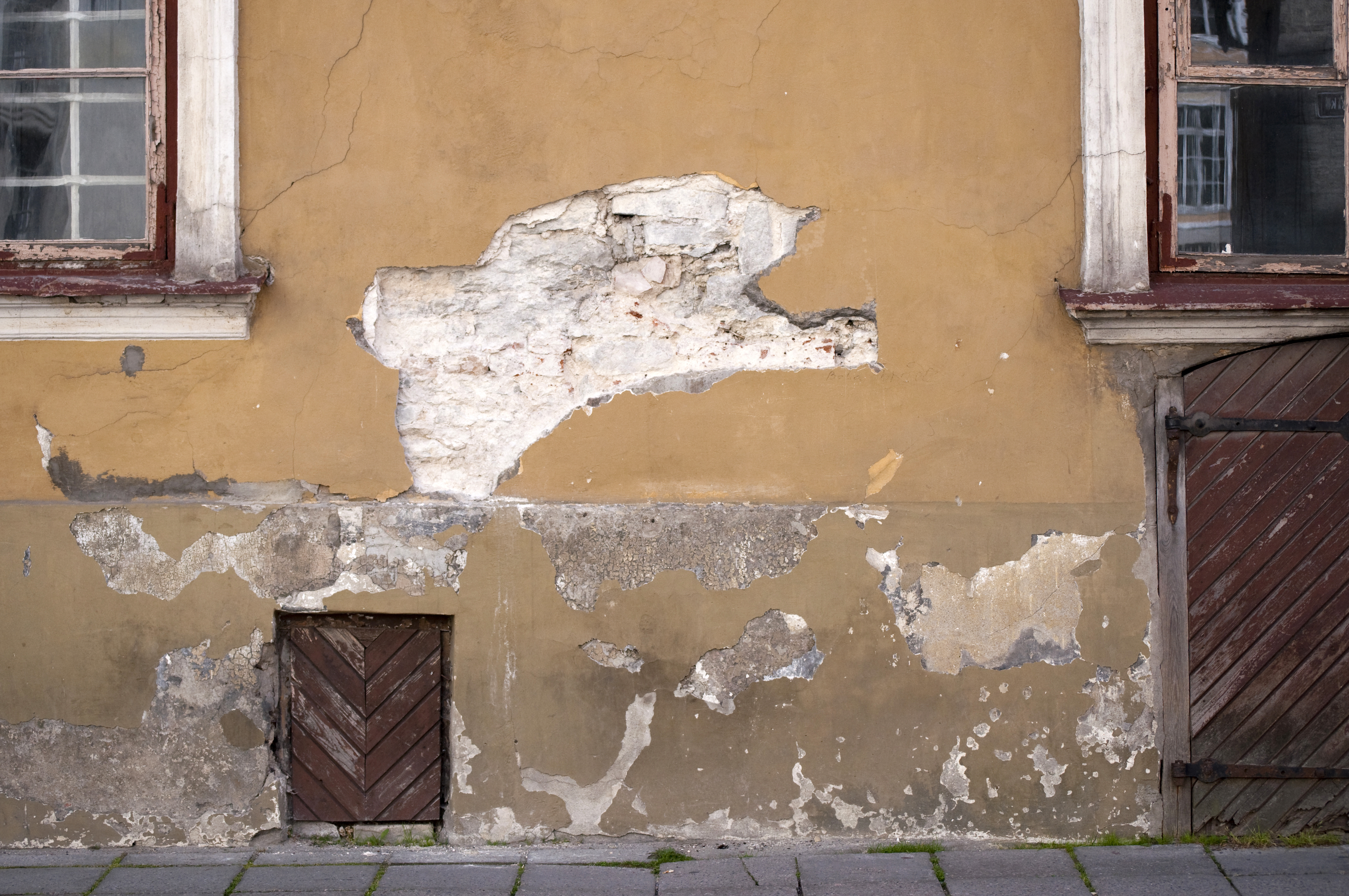 Decay, plaster